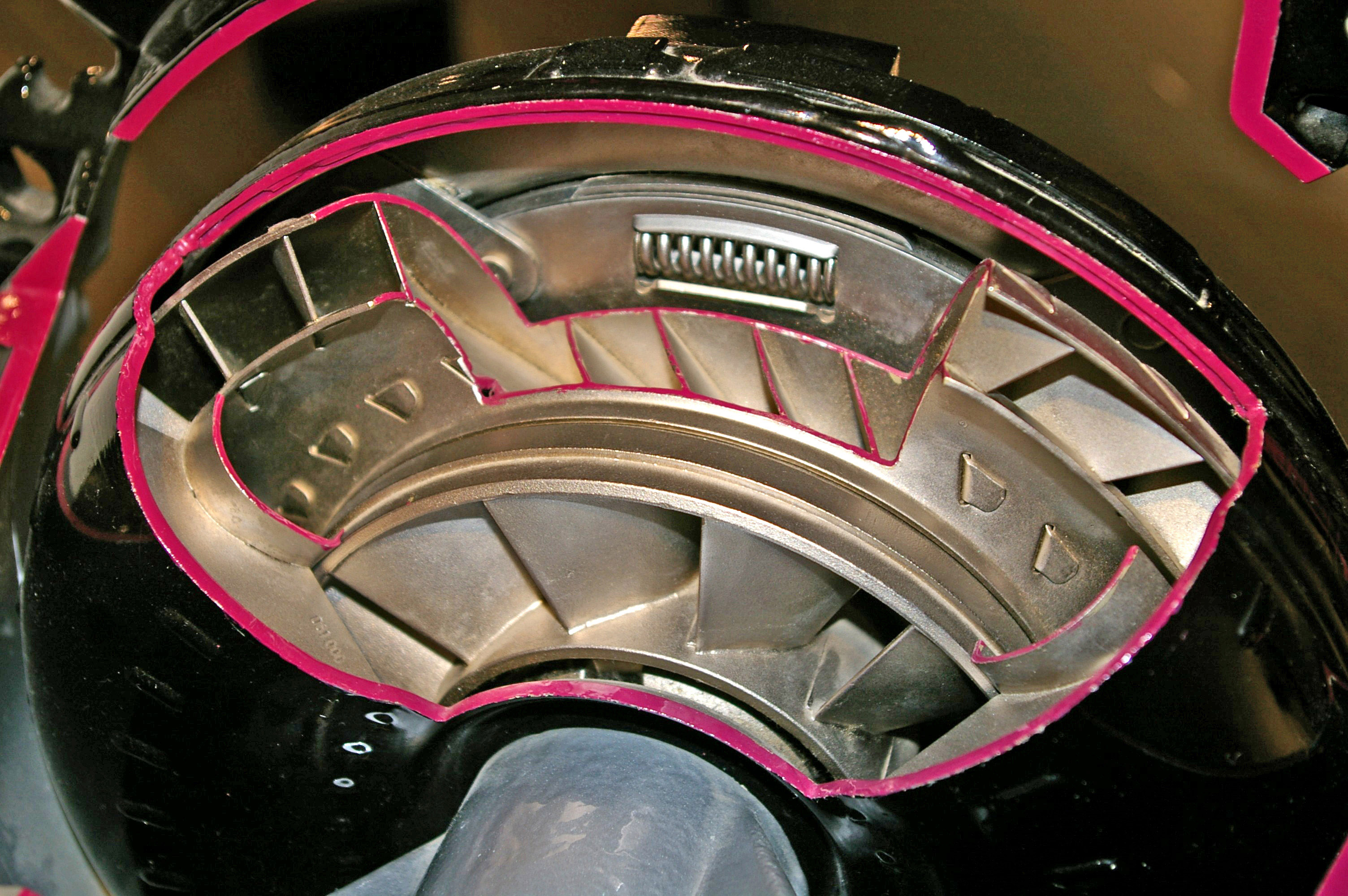 Fluiddynamic torque converter for automated gearboxes of PORSCHE cars. Own photograph. PORSCHE Museum, Stuttgart, Germany, November 2006.